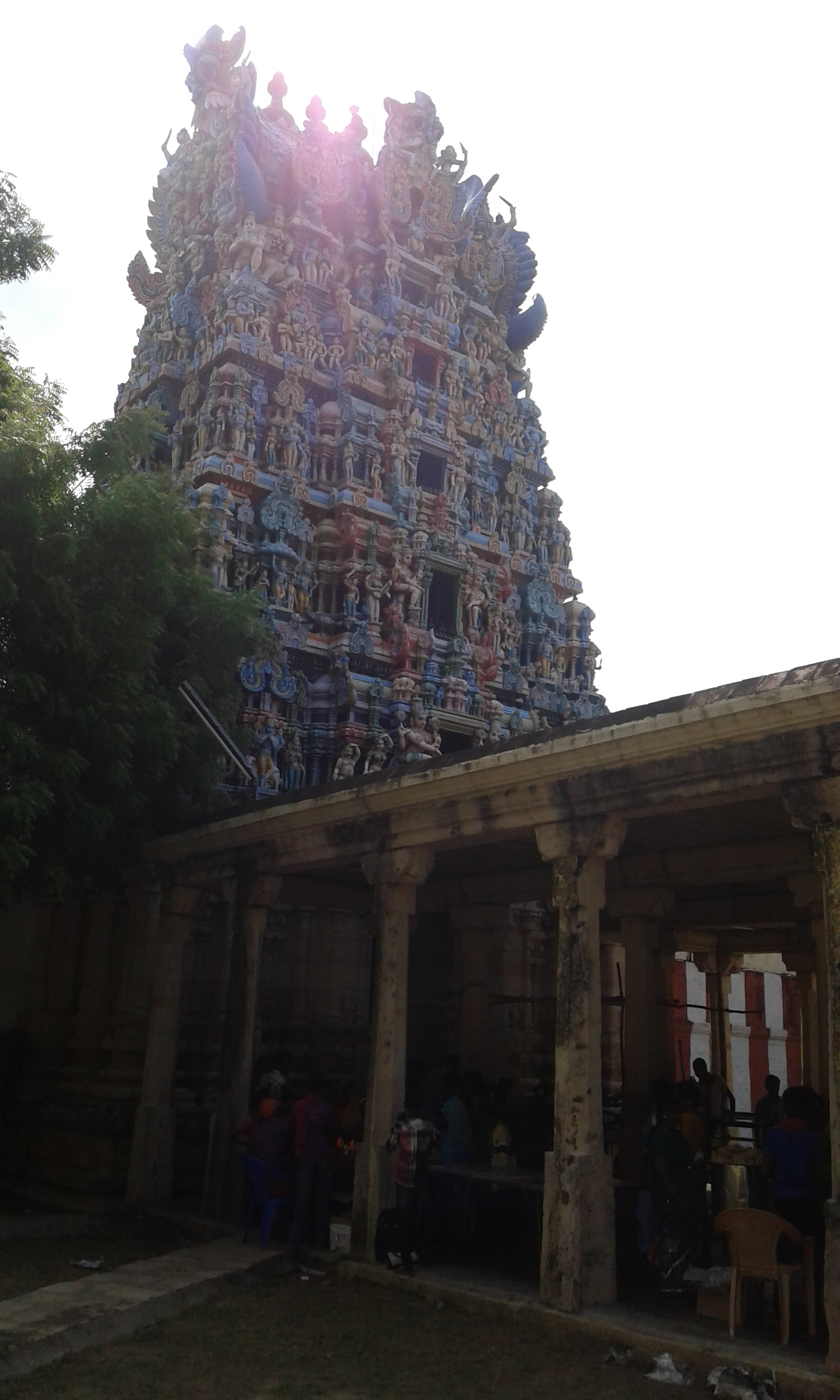 Varagunamangai temple